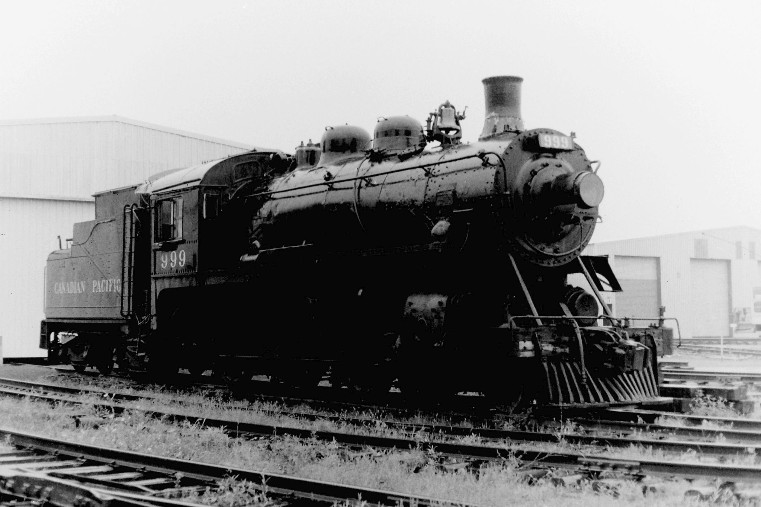 Canadian Pacific Railway class "D-10h" 4-6-0 No.999 built by MLW in 1912 at the Canadian Railway Museum, Montreal 8/70. Built as No. 2774, it was renumbered 999 in 1913; and transferred to the Dominion Atlantic Railway between 1937 and 1953. Donated to the CRM in 1963